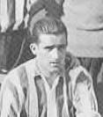 Athletic Club de Bilbao, 1930-31 Spanish League Champions. Line up: Muguerza, Chirri II, Urquizu, Lafuente, Blasco, Ispizúa, Uribe, Unamuno, Castellanos, Bata, R. Echevarría & Gorostiza